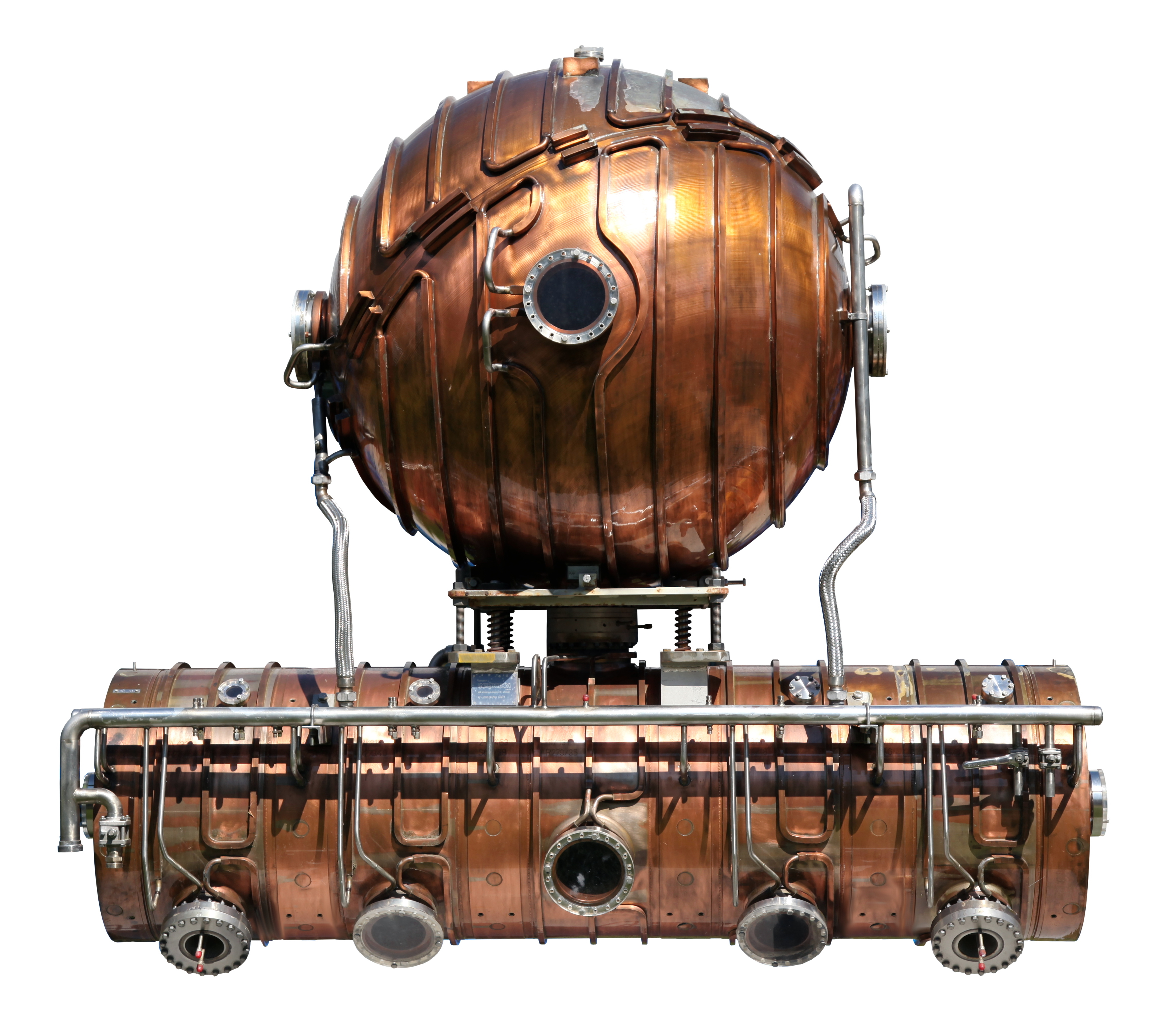 One of the 128 radio-frequency cavities of the LEP accelerator ring, on display at the Microcosm exhibition at CERN